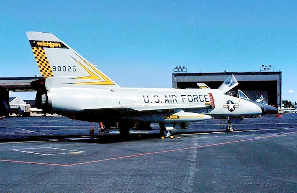 171st Fighter Interceptor Squadron F-106 Delta Dart 59-0025 Michigan ANG